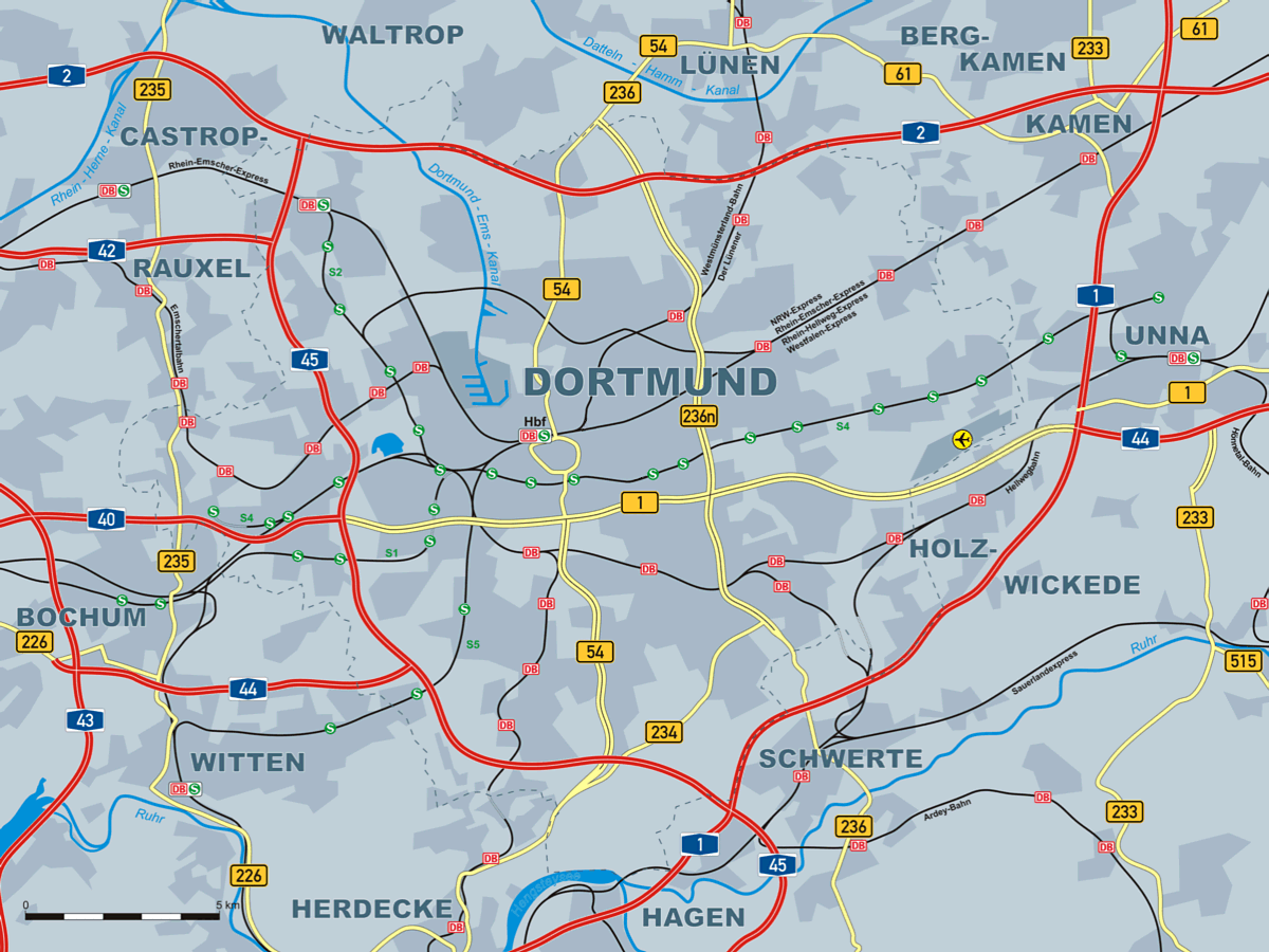 Dortmund (transport network